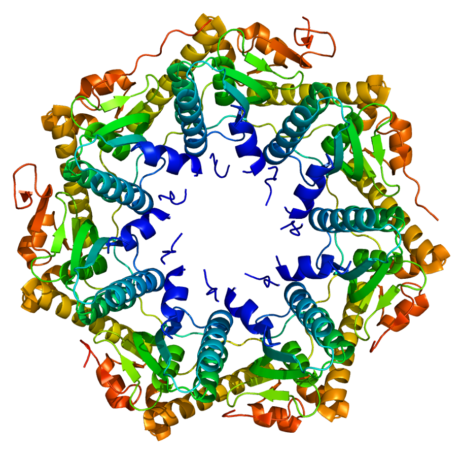 Structure of the CLPP protein. Based on PyMOL rendering of PDB 1tg6.